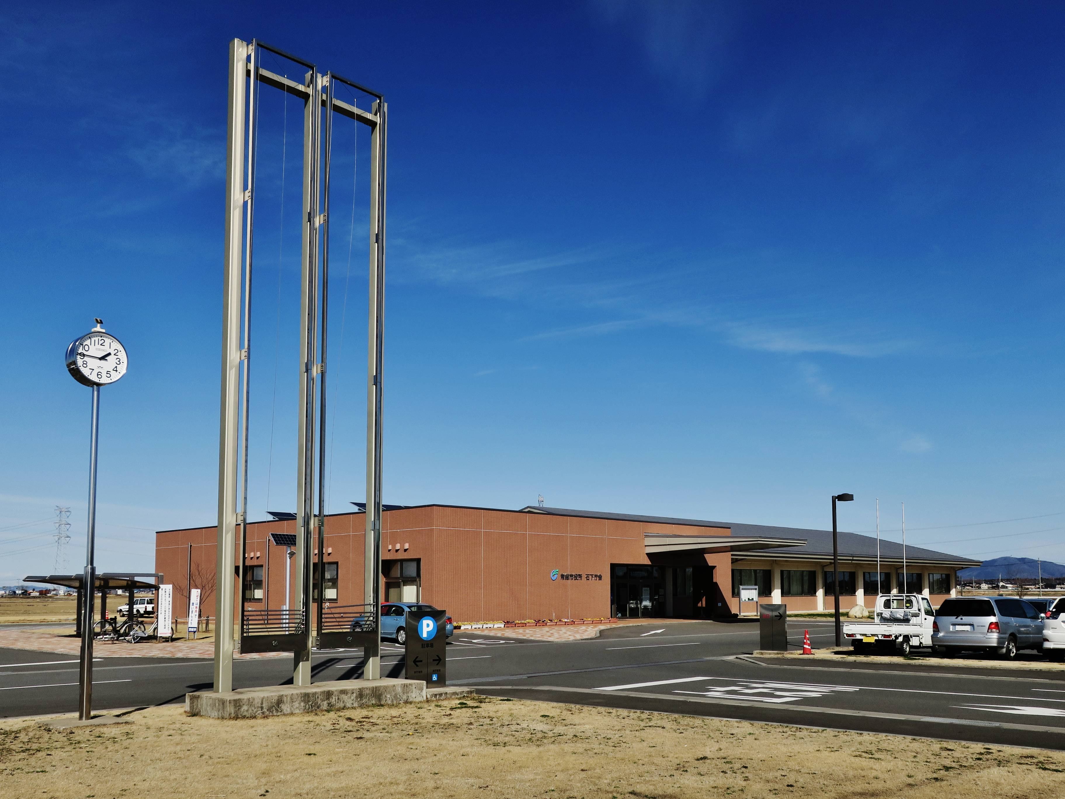 Joso city Ishige branch office.